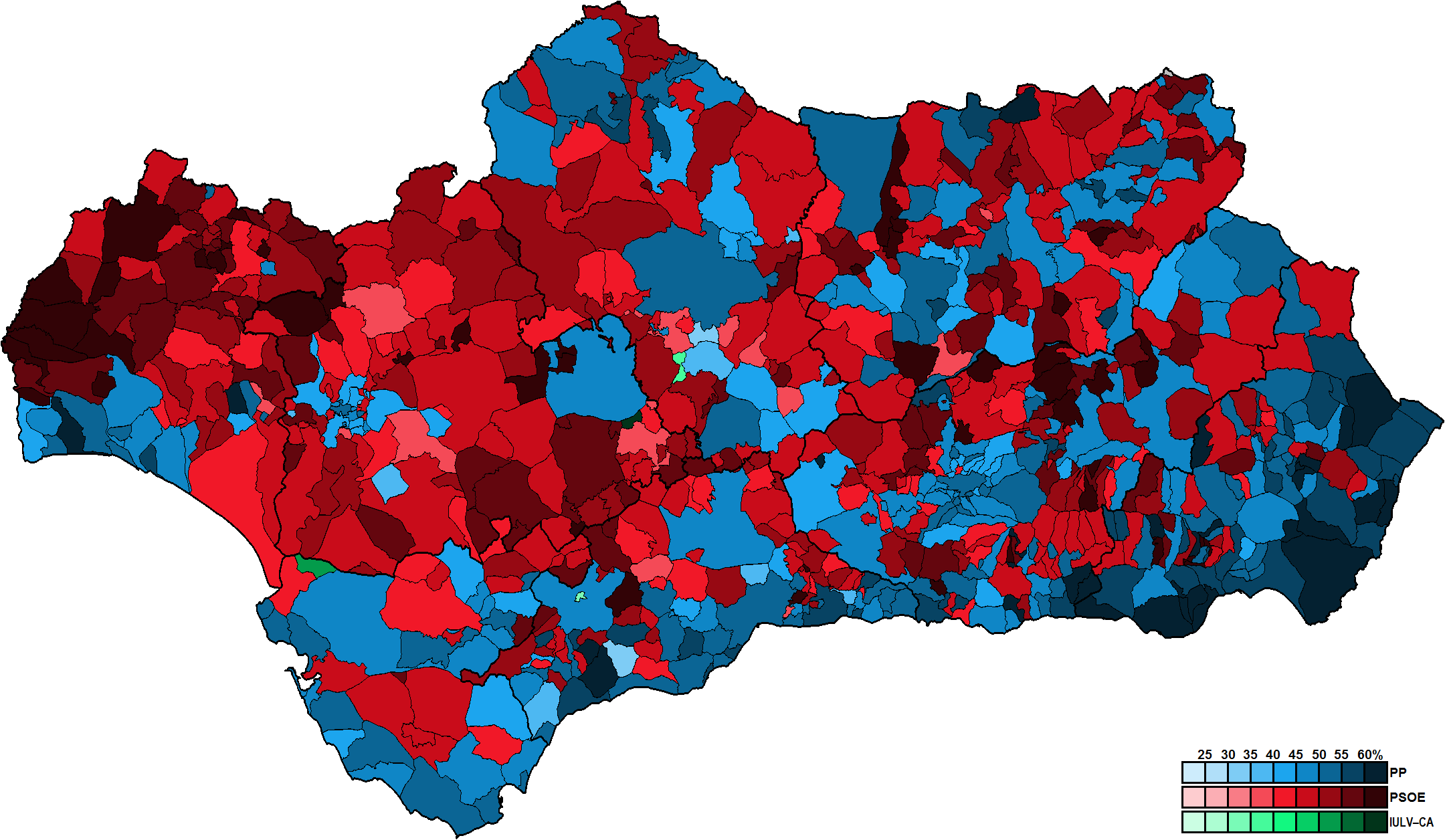 Most-voted party in Andalusia municipalities, showing vote share obtained, in the Spanish general election, 2011.